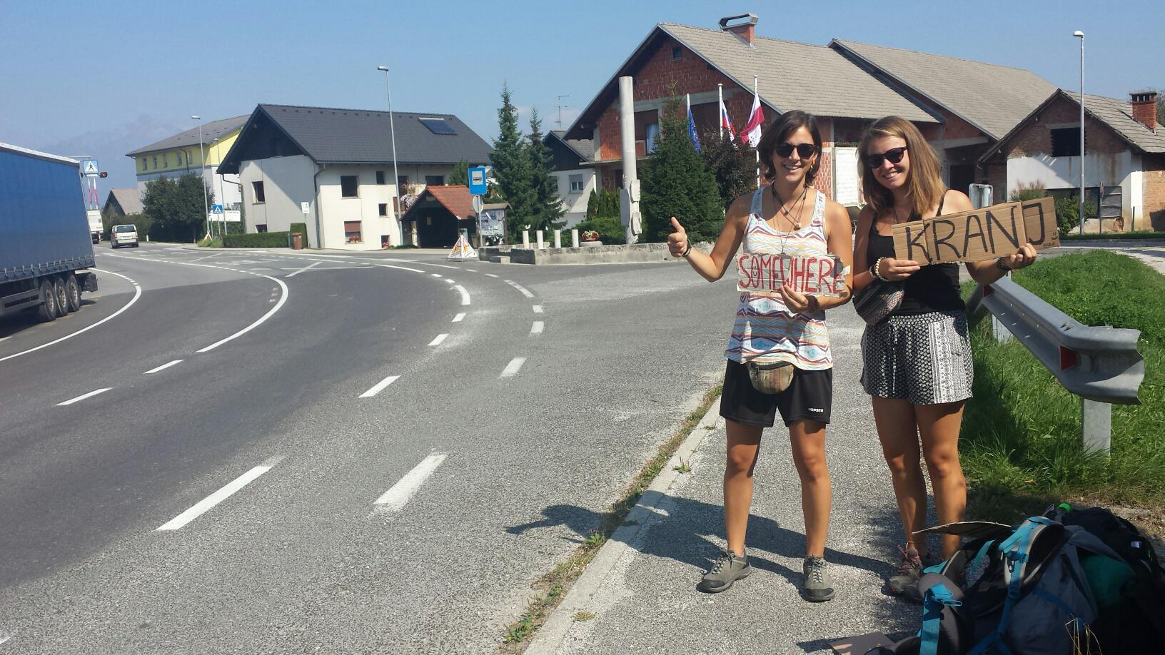 Hitchhiking in Slovenia is very popular.